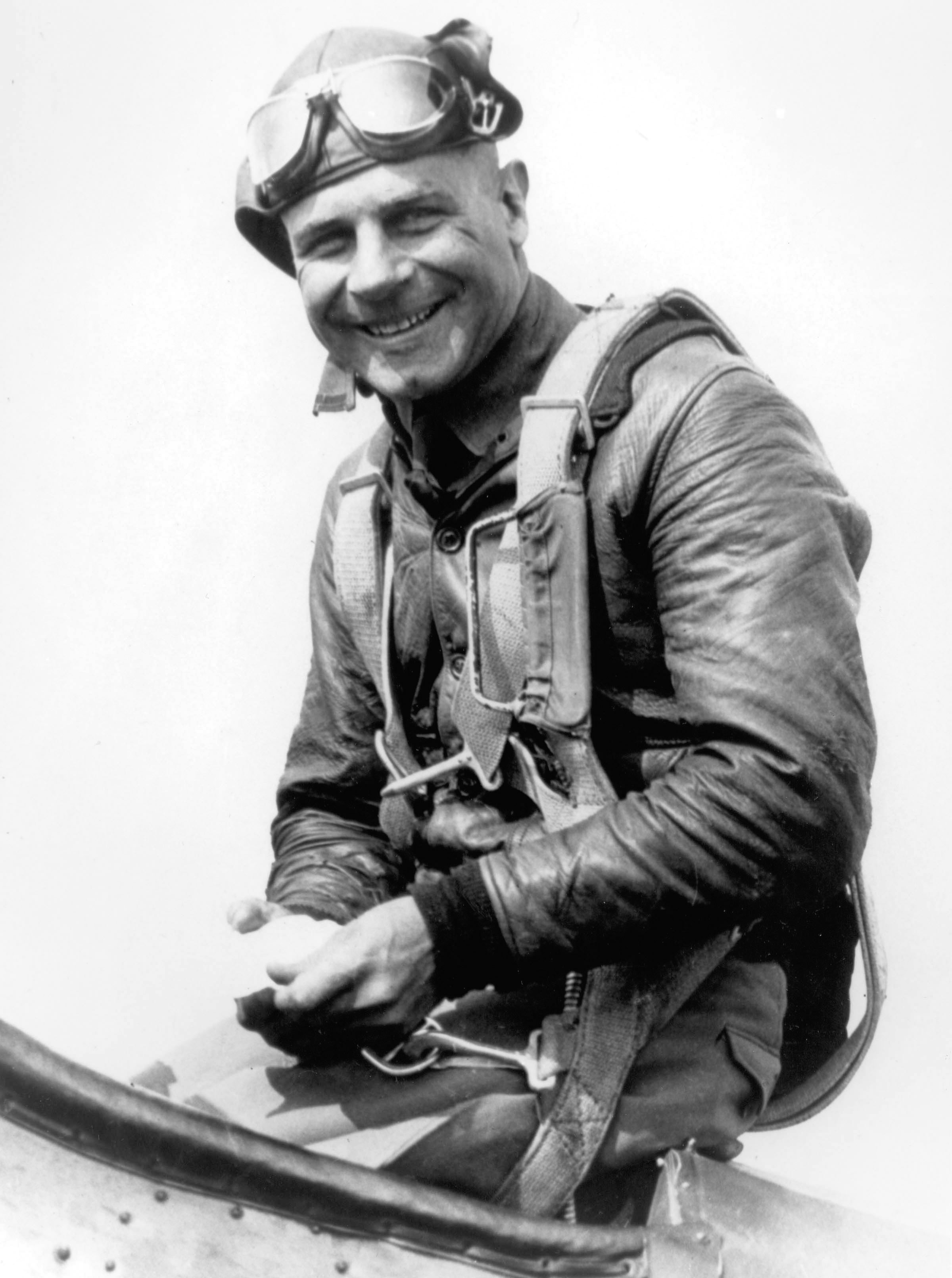 Jimmy Doolittle from